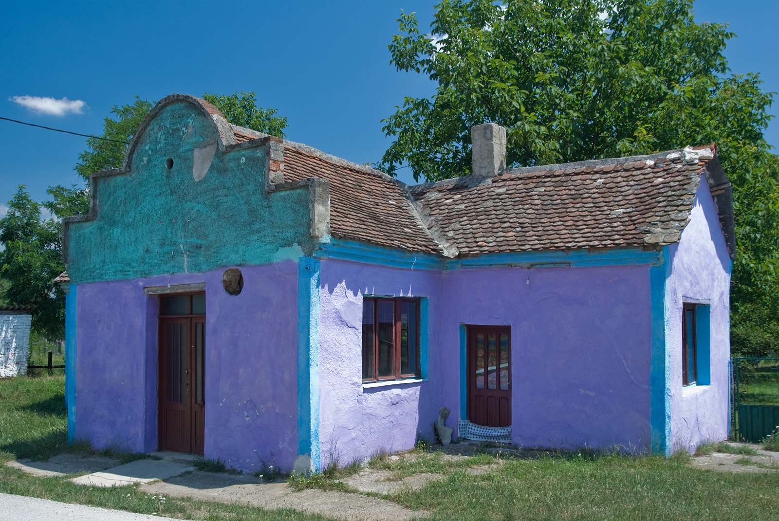 House in Brgule village near Ub, Serbia